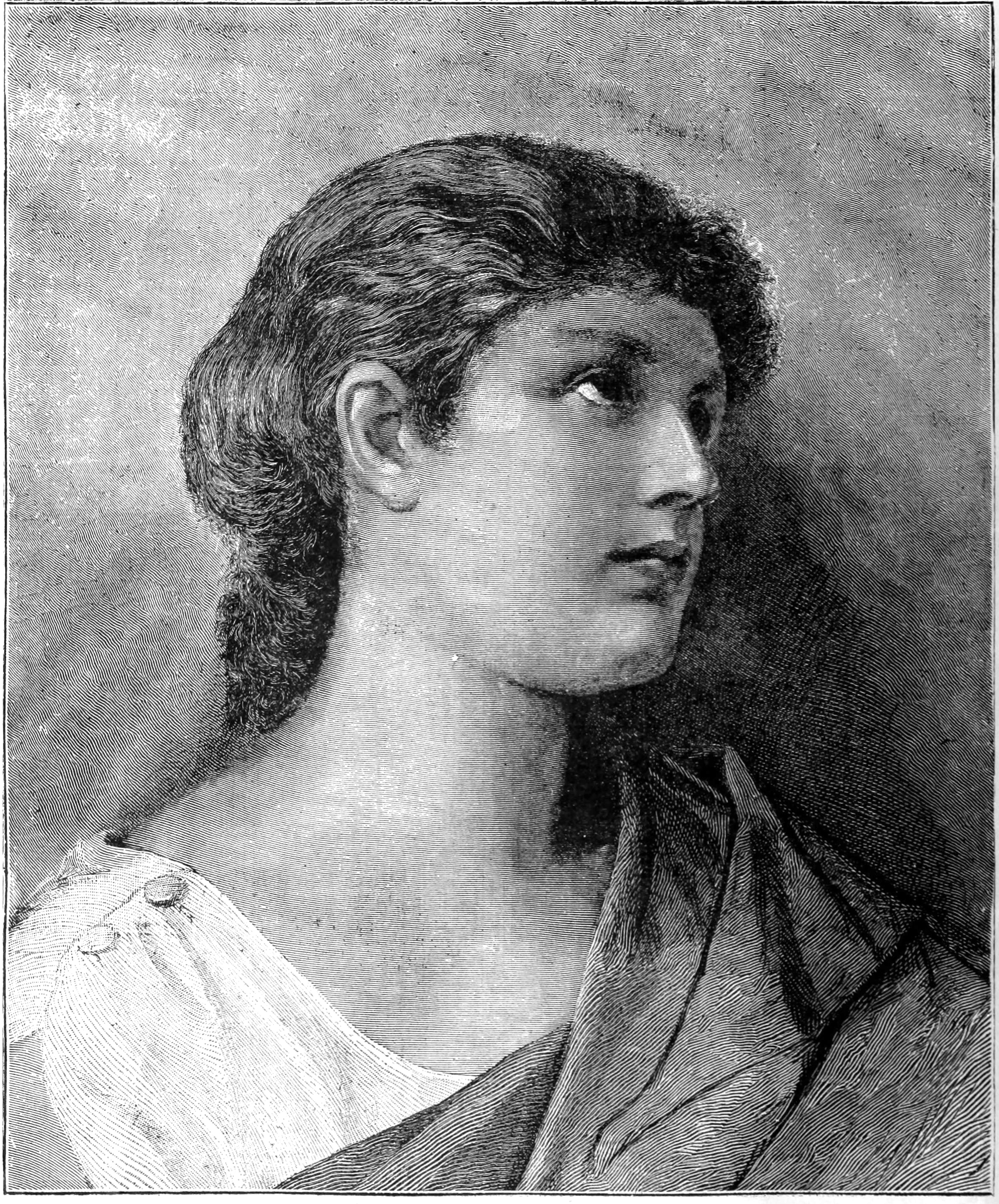 Personification of Faith in an 1885 engraving